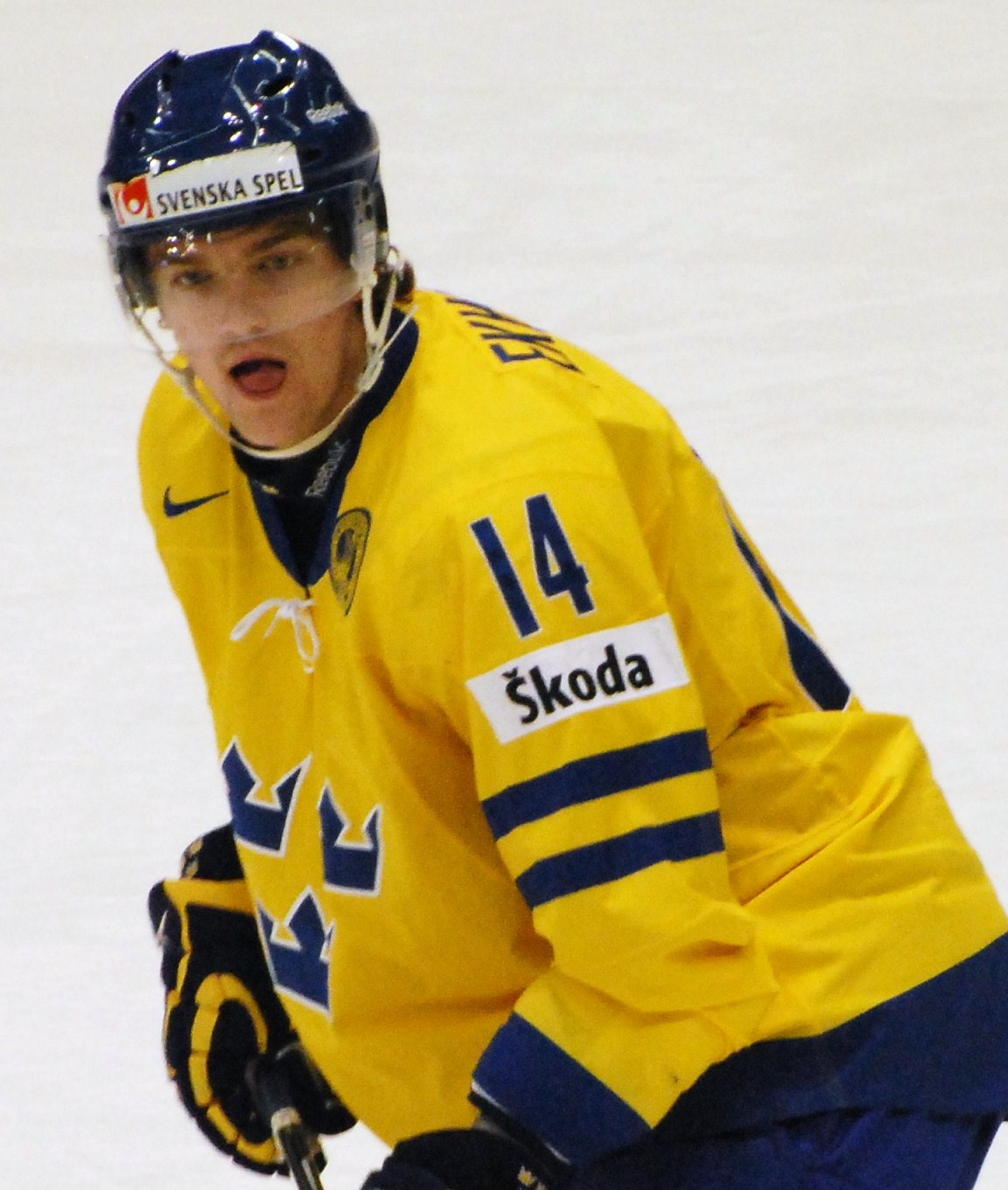 Mattias Ekholm during a game against Russia at the 2010 World Junior Championships.